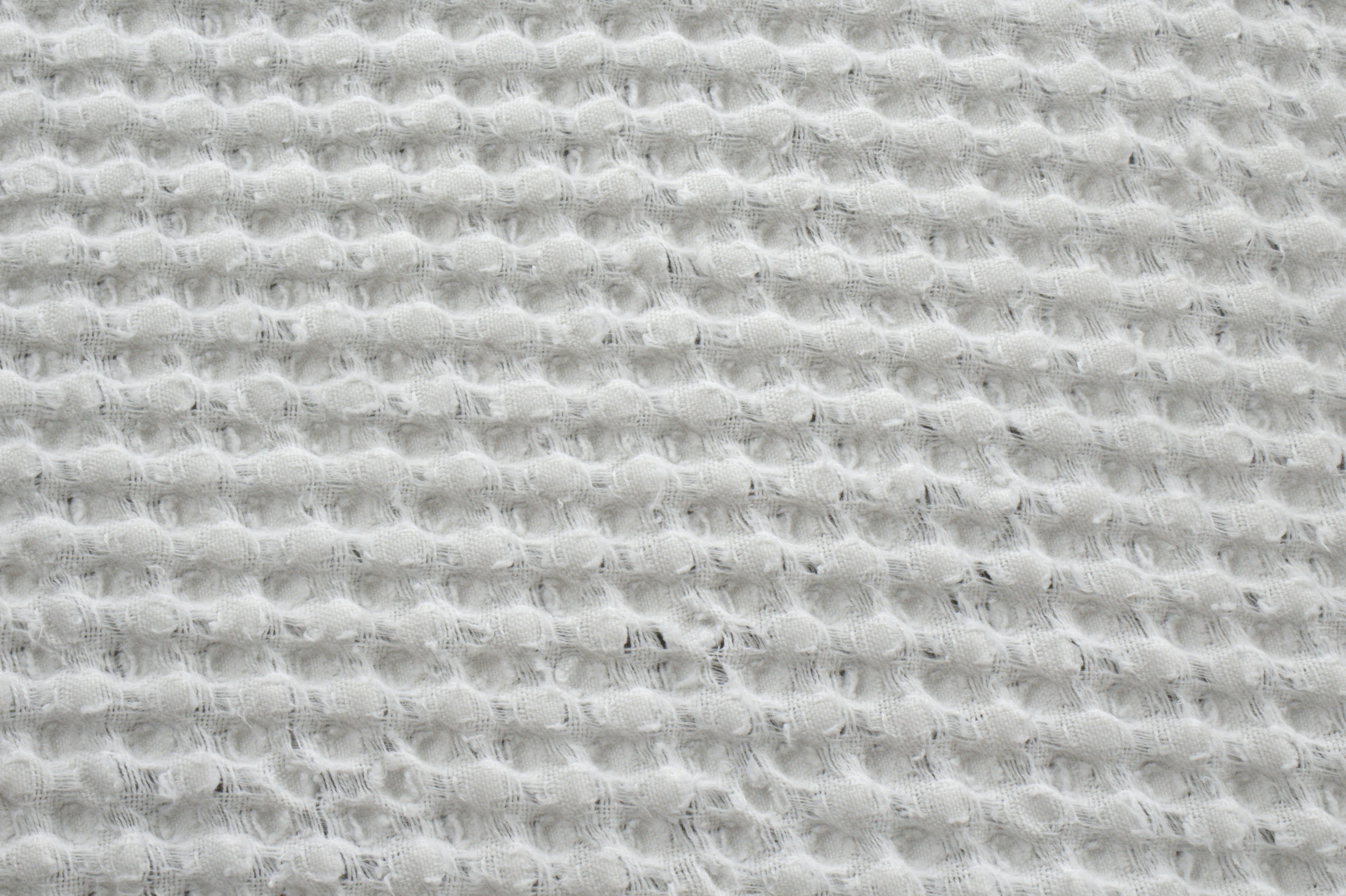 A close-up of white waffle fabric.